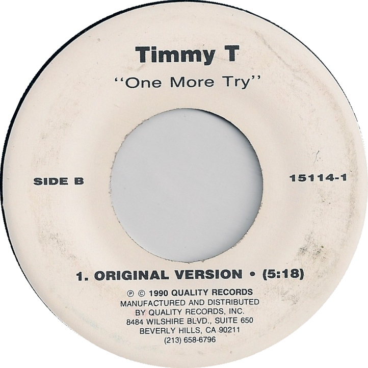 B-side of "One More Try" by Timmy T